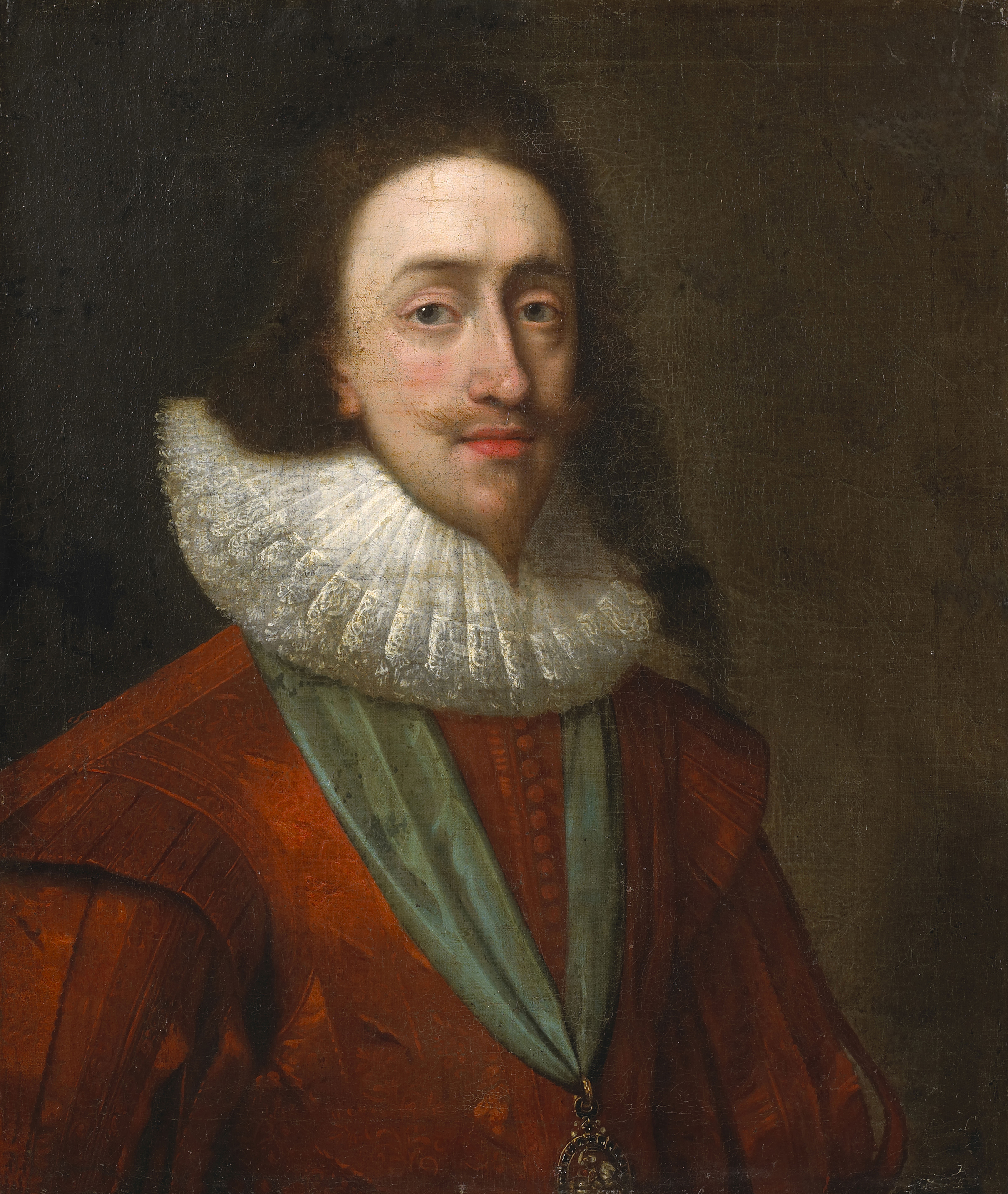 " Head and shoulders in a red doublet and ruff, wearing the ribbon of the Garter "